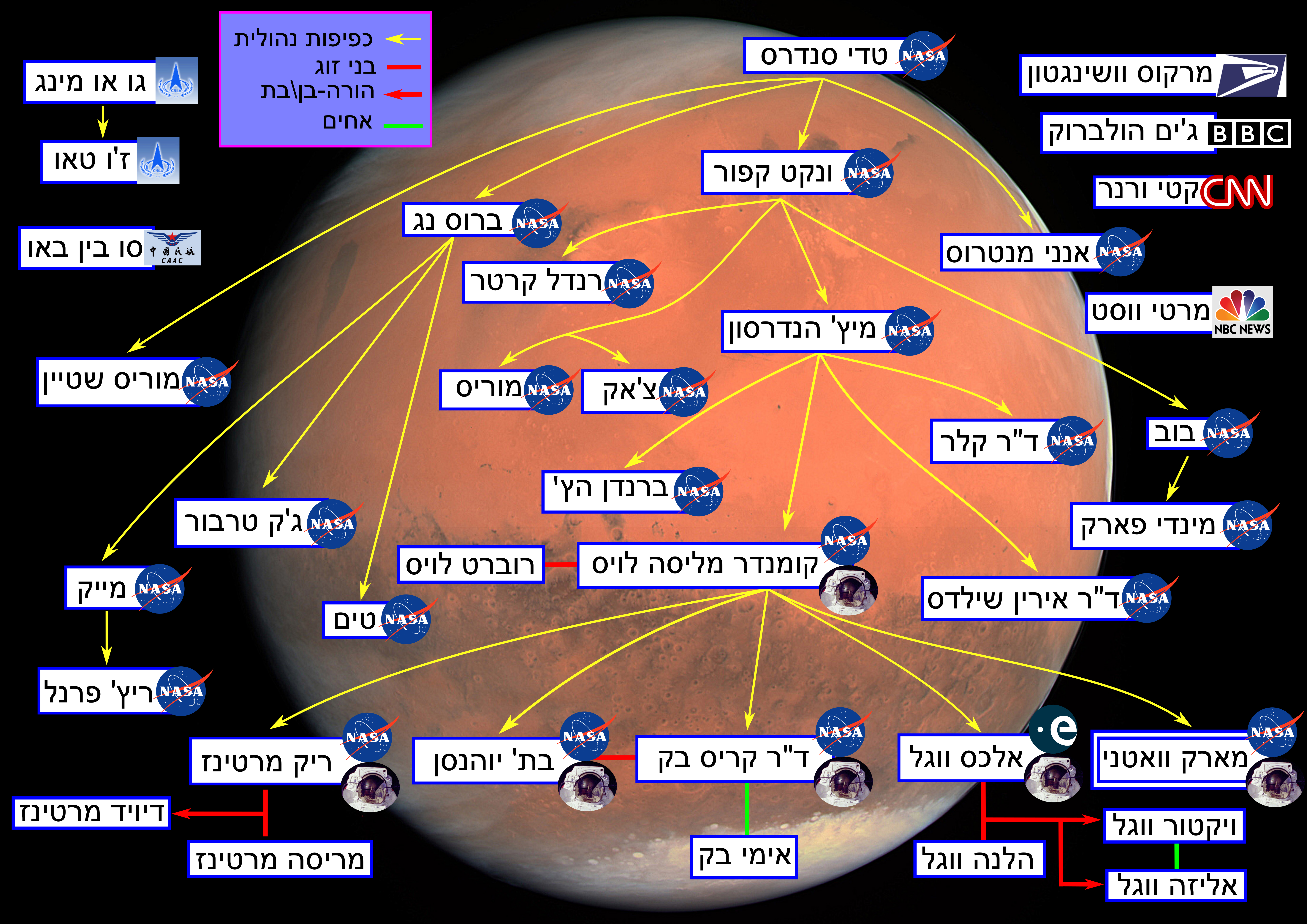 Hebrew png version